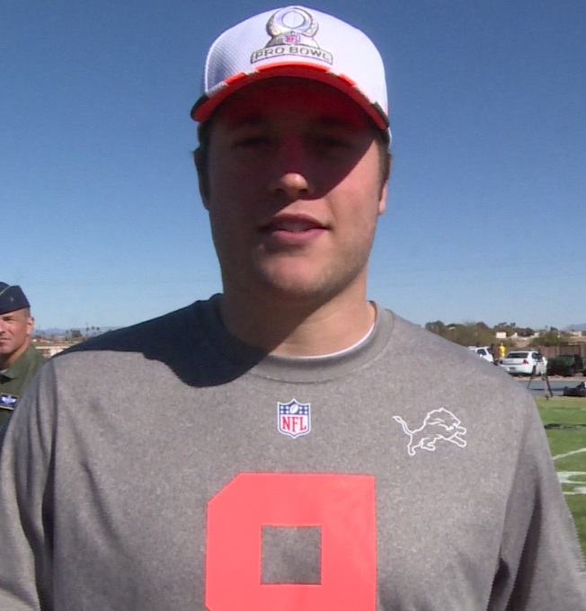 Matthew Stafford in 2015 Pro Bowl practice